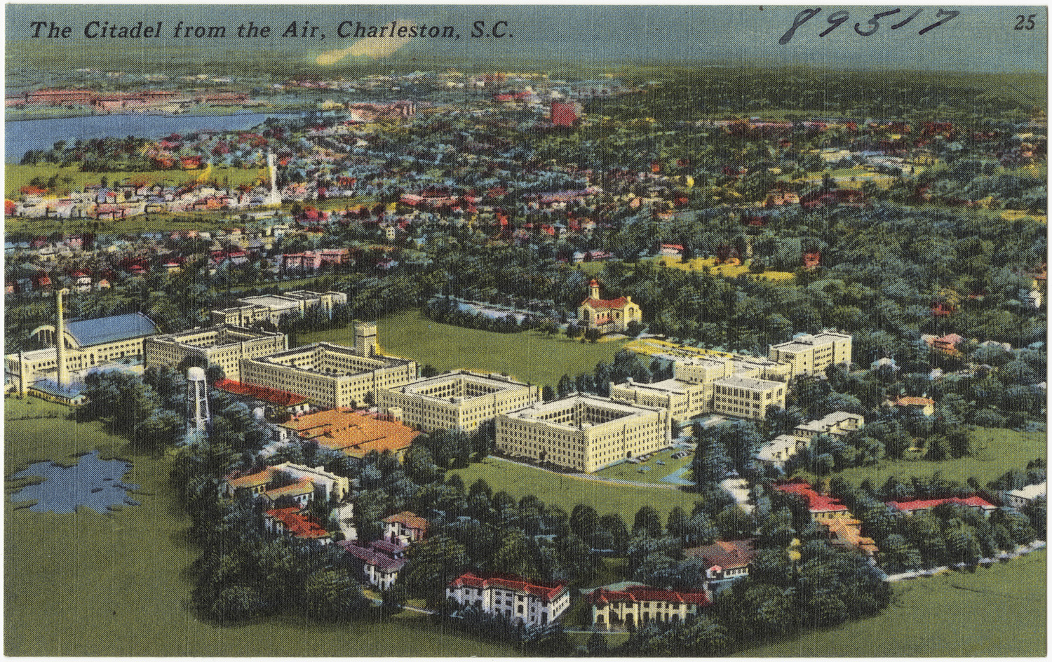 The Citadel from air, Charleston, S. C. File name: 06_10_018739 Title: The Citadel from air, Charleston, S. C. Created/Published: Pub. by I. Ginsberg Inc., Charleston, S. C. "Tichnor Quality Views," Reg. U. S. Pat. Off. Made Only by Tichnor Bros., Inc., Boston, Mass. Date issued: 1930 - 1945 (approximate) Physical description: 1 print (postcard) : linen texture, color ; 3 1/2 x 5 1/2 in. Genre: Postcards Subjects: Military facilities; Universities & colleges Collection: The Tichnor Brothers Collection Location: Boston Public Library, Print Department Rights: No known restrictions